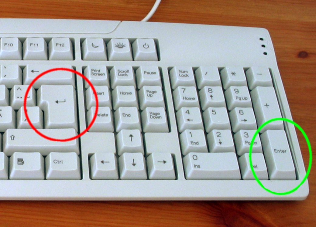 =An image clarifying enter-key. It is a common misunderstanding to think return-key is an equal to enter.The return key is on the left and circled in red, and has the carriage return symbol ↵ printed on it. The enter key is on the right and circled in green, and has the word "Enter" printed on it.